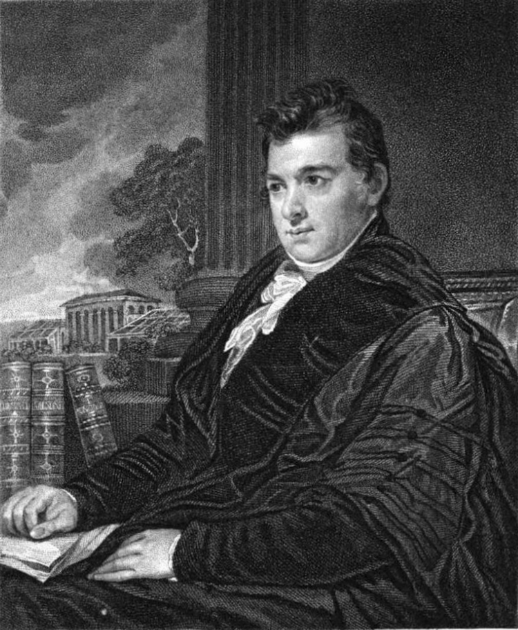 David Hosack, M.D., from a painting by Thomas Sully.